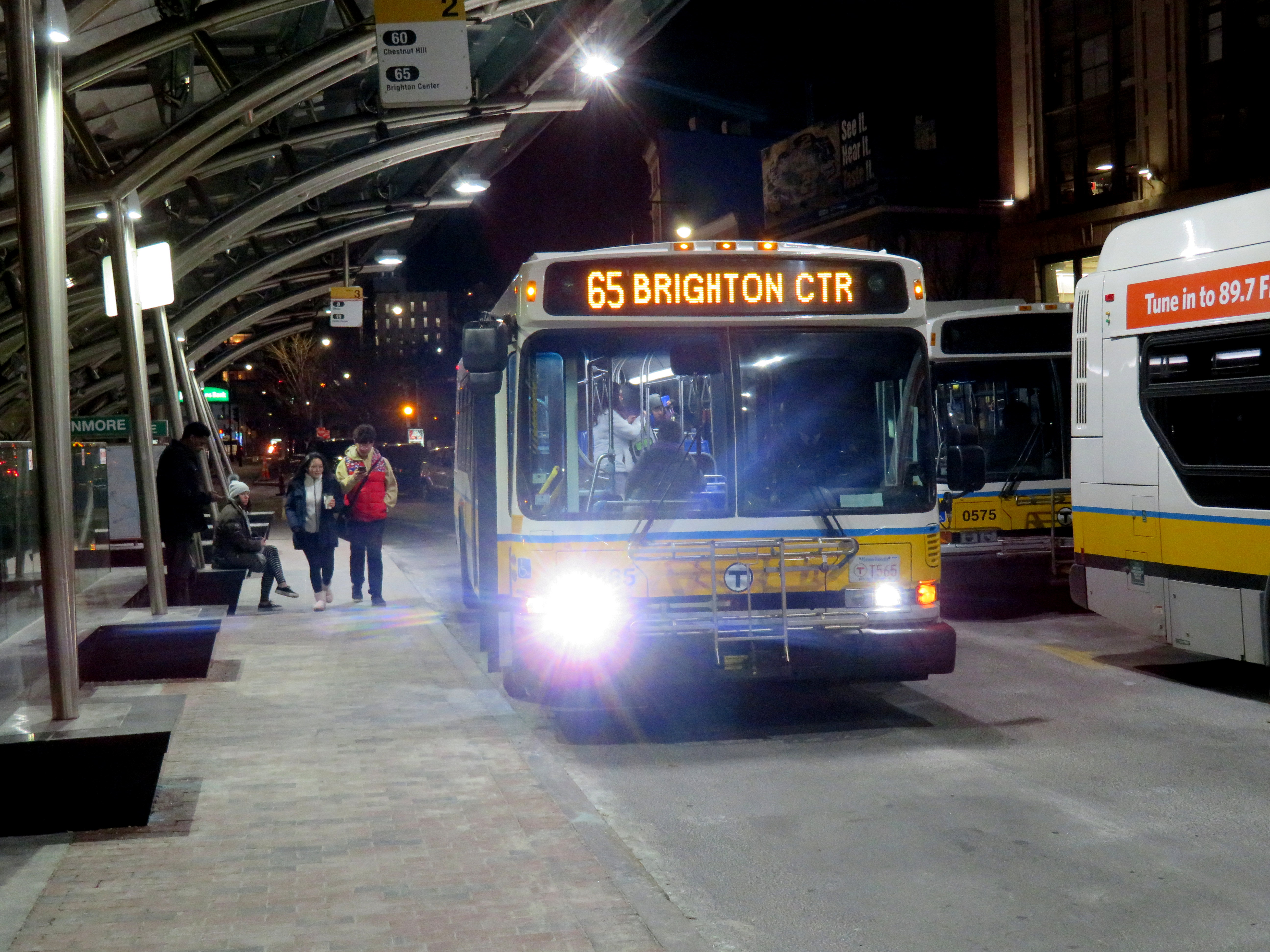 MBTA route 65 bus at Kenmore station in December 2018